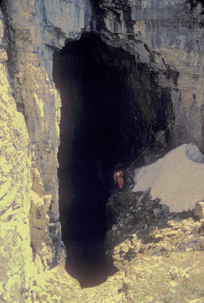 Entrance to Close To The Edge, a cave in the Canadian Rockies